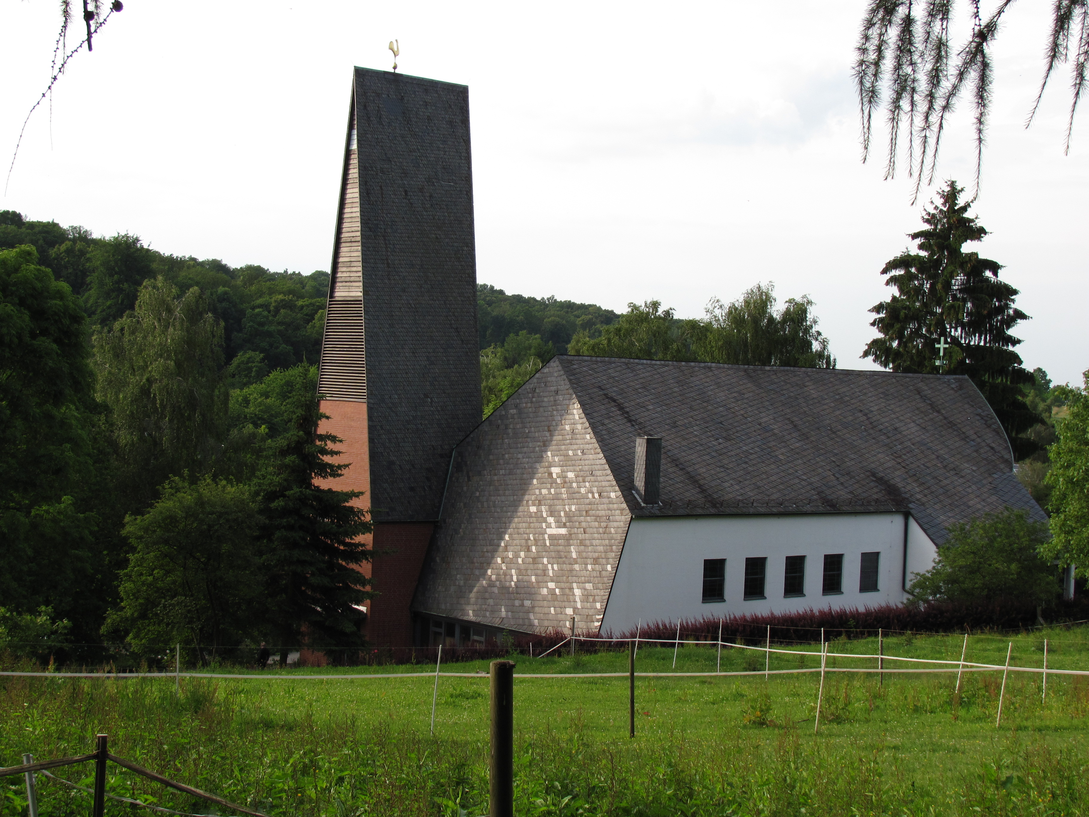 Protestant Church, Diekholzen, Germany.